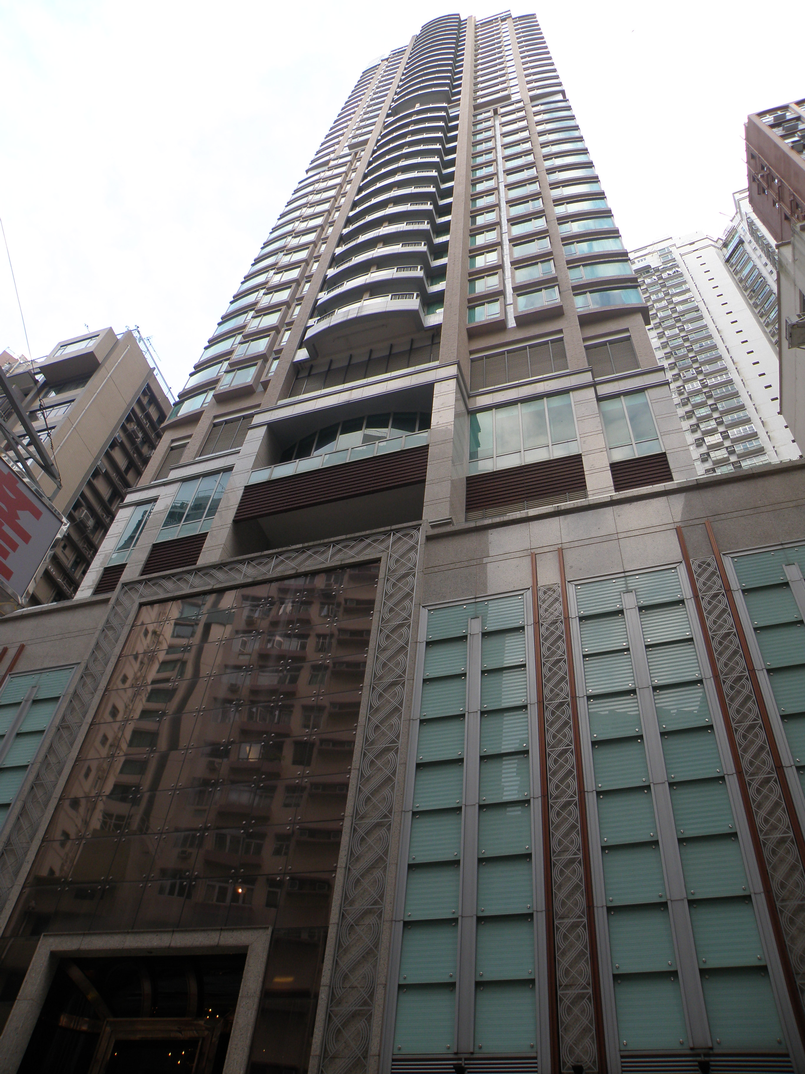 Robinson Road 31